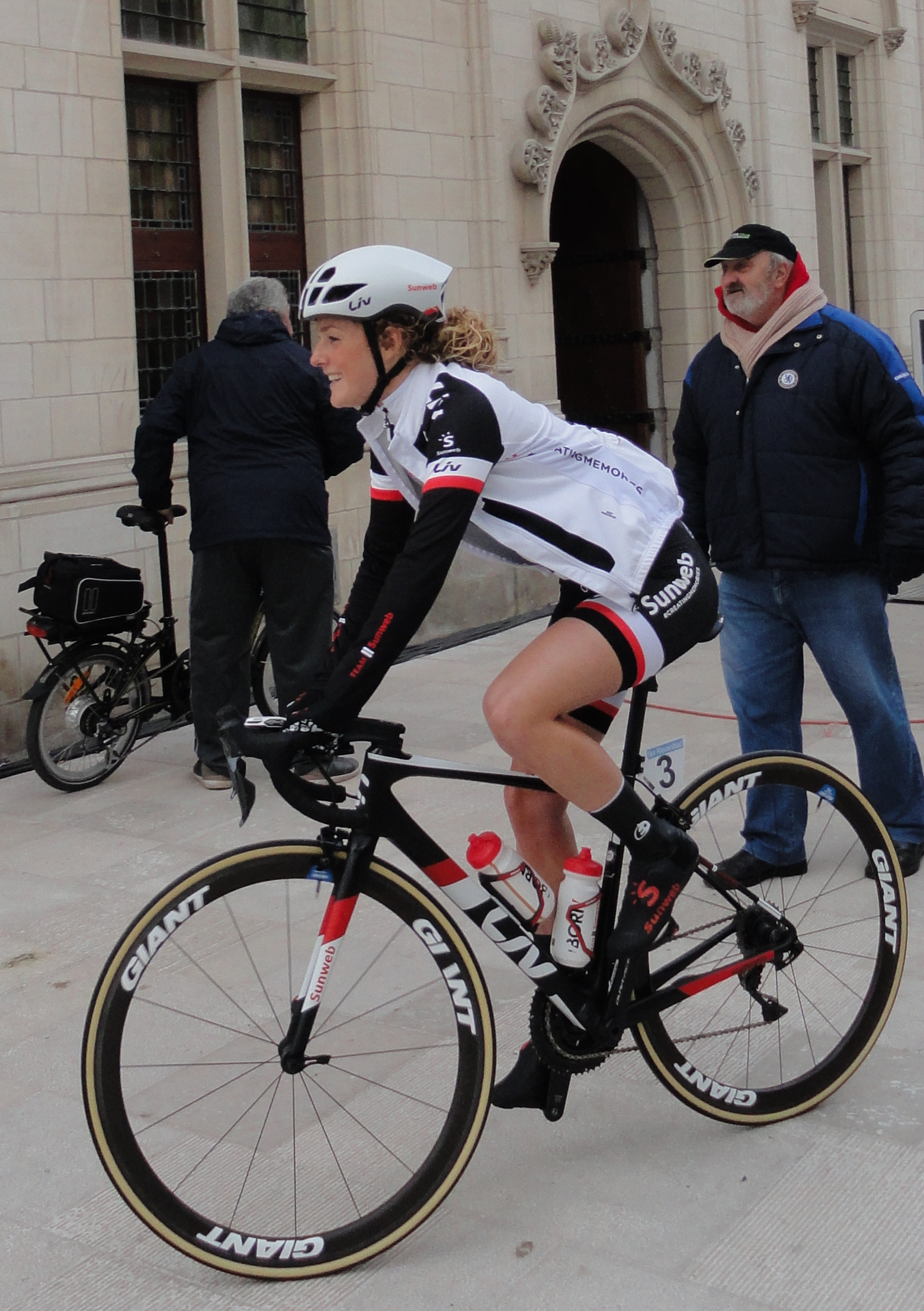 Floortje Mackaij at the start of RVV2018.